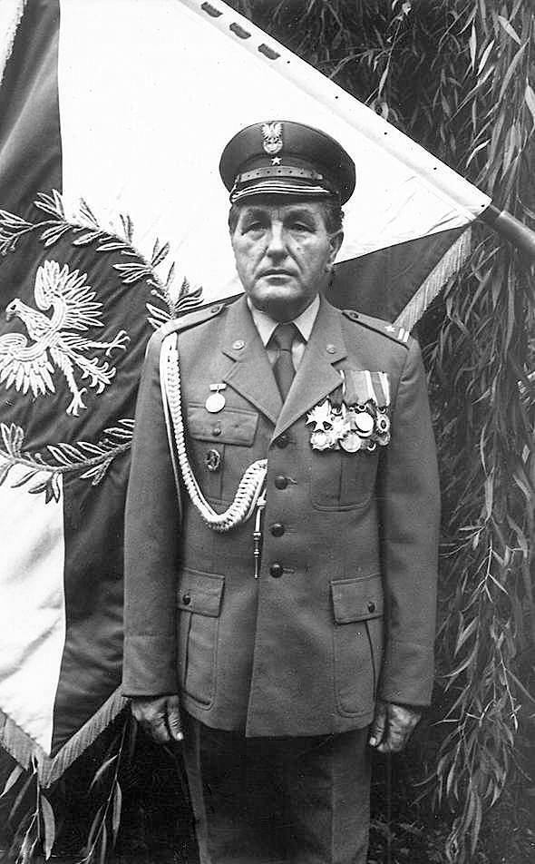 Antoni Olejnik, Soldier of Poland. Border Protection Forces in Gorzyce